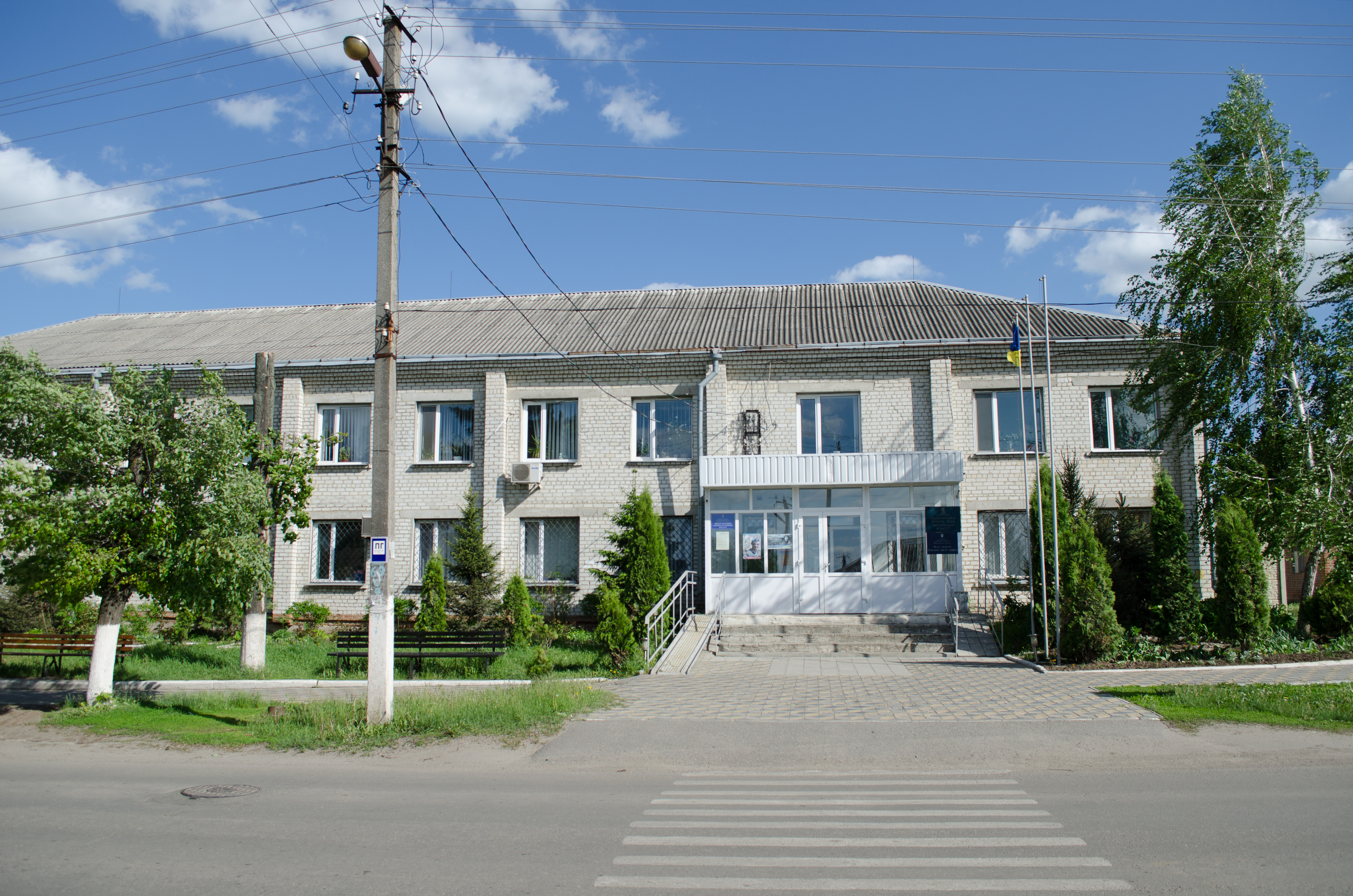 Lyubotyn City Council